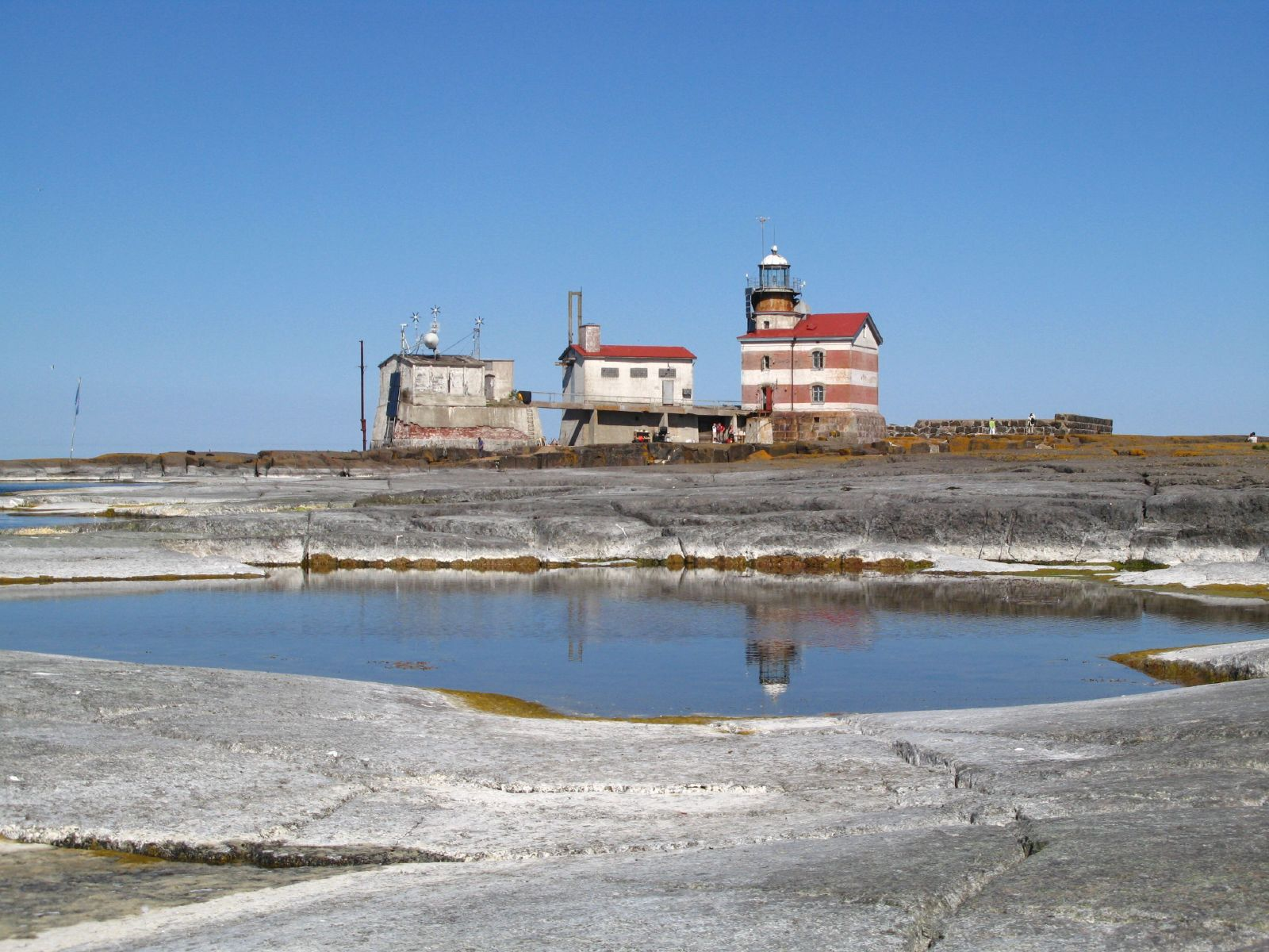 Märket Lighthouse, Finland.